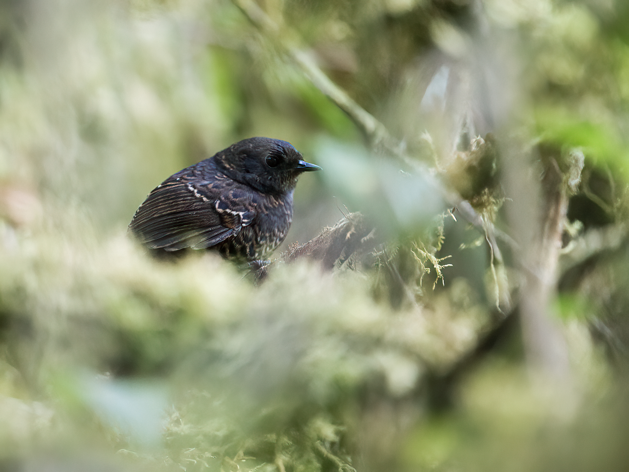 Juvenile Junin Tapaculo from Apalla-Andamarca Road, Junín, Peru. This species was described in 2013, and the authors did not describe the juvenile plumage. This bird was not vocalizing, however it was strongly responsive to playback of the song of the species, so I am reasonably confident it must have been Scytalopus gettyae. 5781